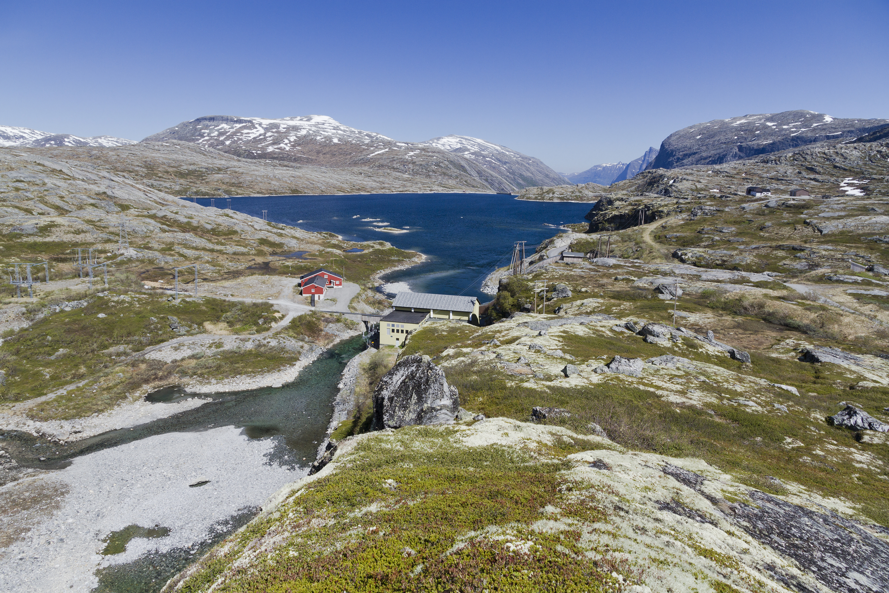 A hydropower site at Holbuvatnet near the dam of Osvatnet in the highlands of south Sunndal, Møre og Romsdal, Norway in 2013 June. Not far from Dovrefjell–Sunndalsfjella National Park to the east.